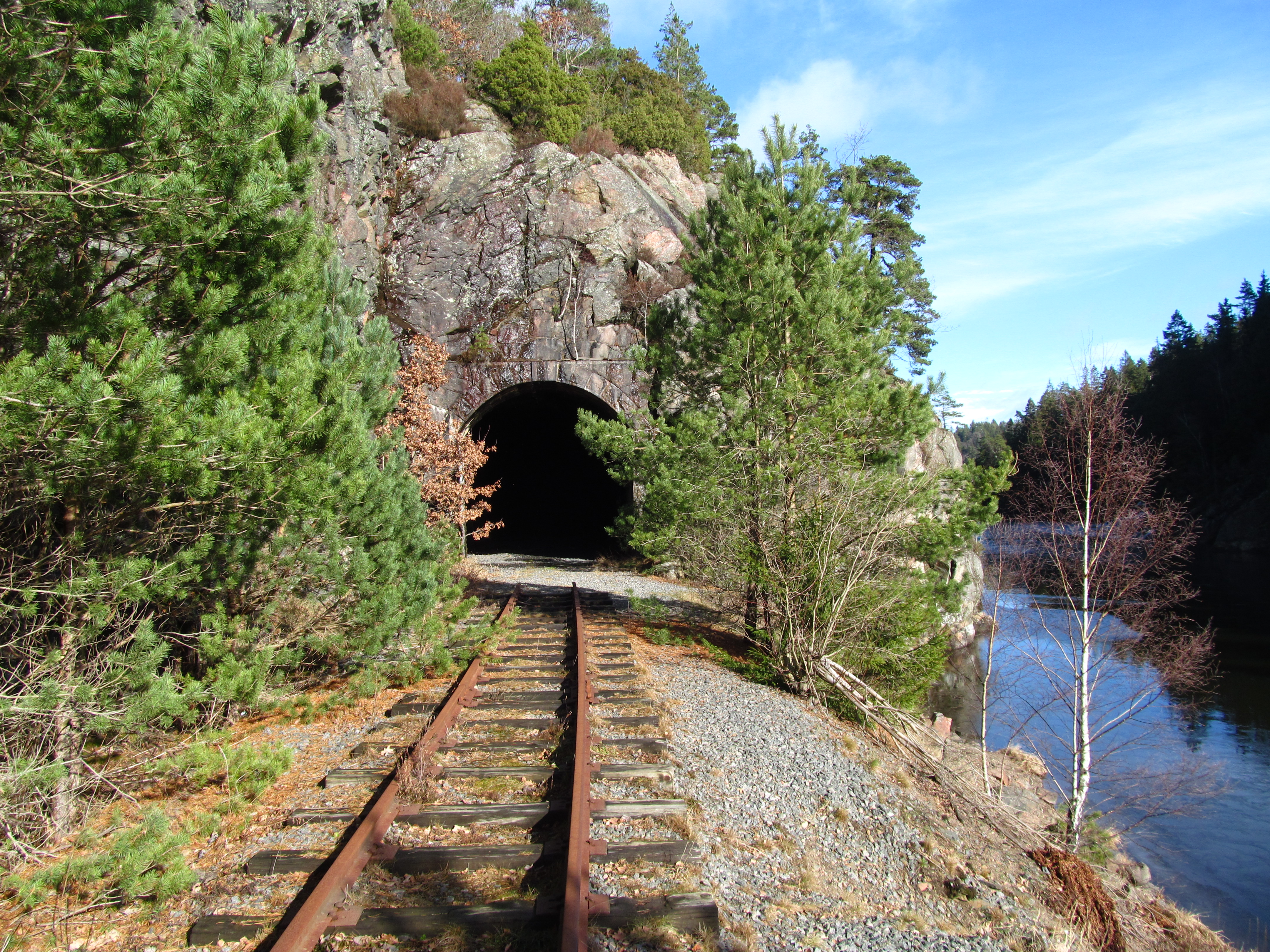 Narrow gauge railway tunnel near Anten, Alingsås Municipality, Sweden. Part of the heritage railway line Anten-Gräfsnäs. Tracks temporarily removed 2004 but was still not in place in february 2017.